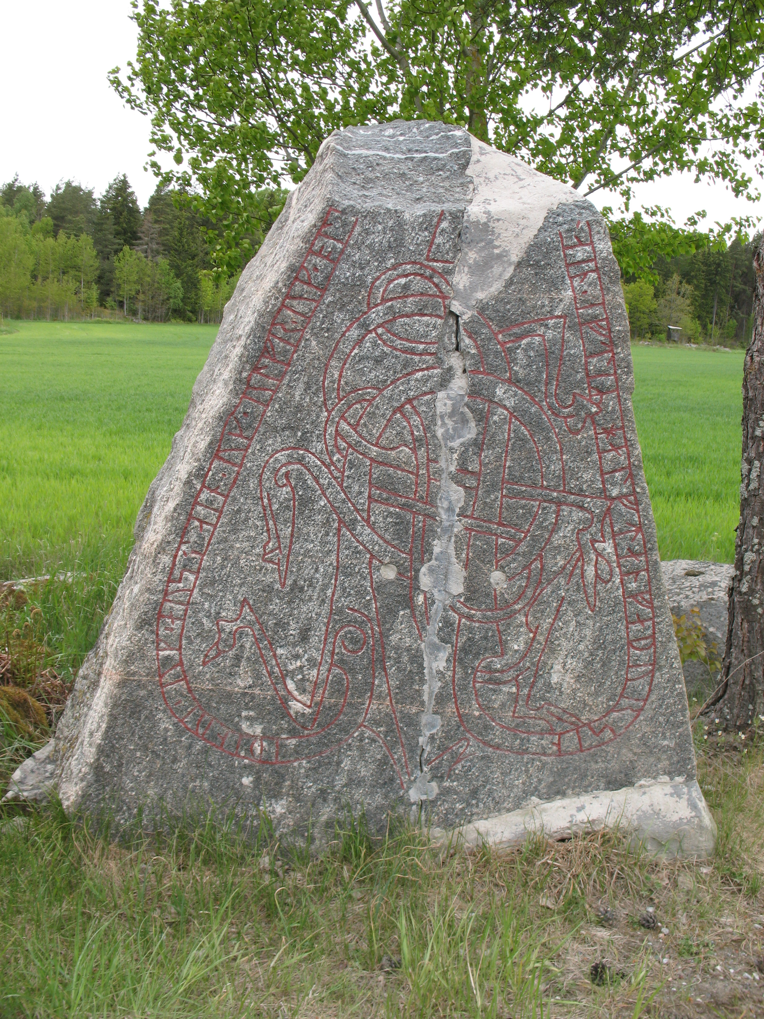 runestone U 231 in Gällsta, Vallentuna.